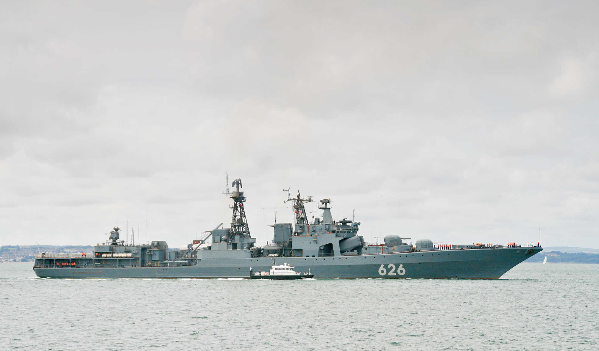 A Udaloy class destroyer of the Russian Federation Navy RFS Vitse Admiral Kulakov inward bound to Portsmouth Naval Base, UK, for a five-day visit, 24 August 2012. Vitse Admiral Kulakov has recently been deployed in the Indian Ocean on anti-piracy duty, and in late July 2012, led a flotilla of the Russian Northern Fleet to the Eastern Mediterranean to conduct naval drills, close to the Syrian coast. Image uploaded by me User:George.Hutchinson from a photograph taken by and supplied by Brian Burnell. Wikipedia editors are reminded that the copyright remains with the photographer, and that the terms of the Creative Commons licence; that allow editors to reuse this image apply to Wikipedia editors also, as they do to other re-users of this image. Breaches of the licence terms are not only unlawful, but are also antisocial, in that breaches discourage photographers from making their images freely available to everyone without payment. Wikipedia re-users are also reminded of the license terms that derivatives of this image should not imply that the adaptation is endorsed or approved by the author or copyright holder. Neither should derivatives be presented as the creation of the author or copyright holder, while clearly stating that the adaptation is a derivative of the original. Attribution online should be in this format Brian Burnell. On the printed page, a simpler form is acceptable - example: "Image: Brian Burnell". Non-Wikipedia users are requested to advise Brian Burnell of its use other than on Wikipedia.